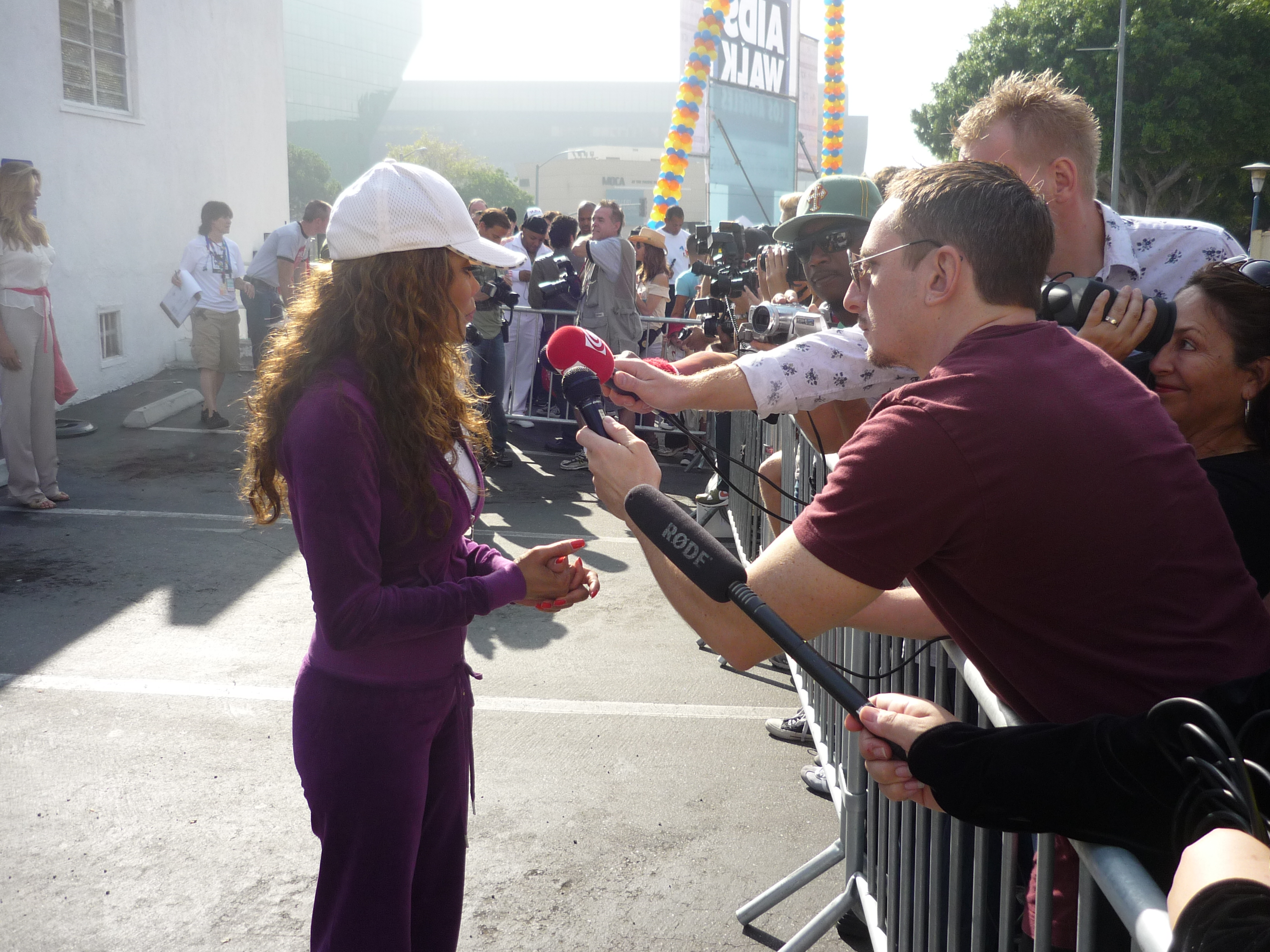 La Toya Jackson talks to the press